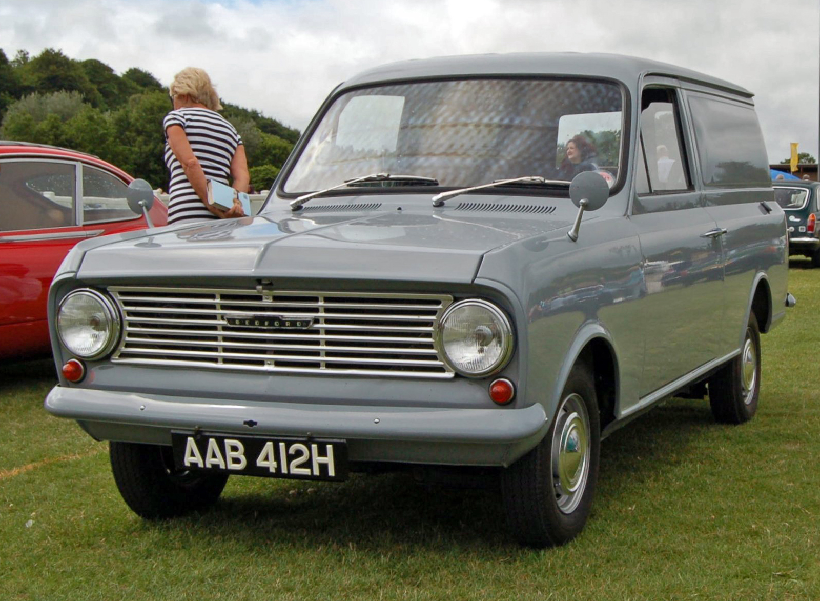 1968 Bedford HA Van, with the 1159cc engine